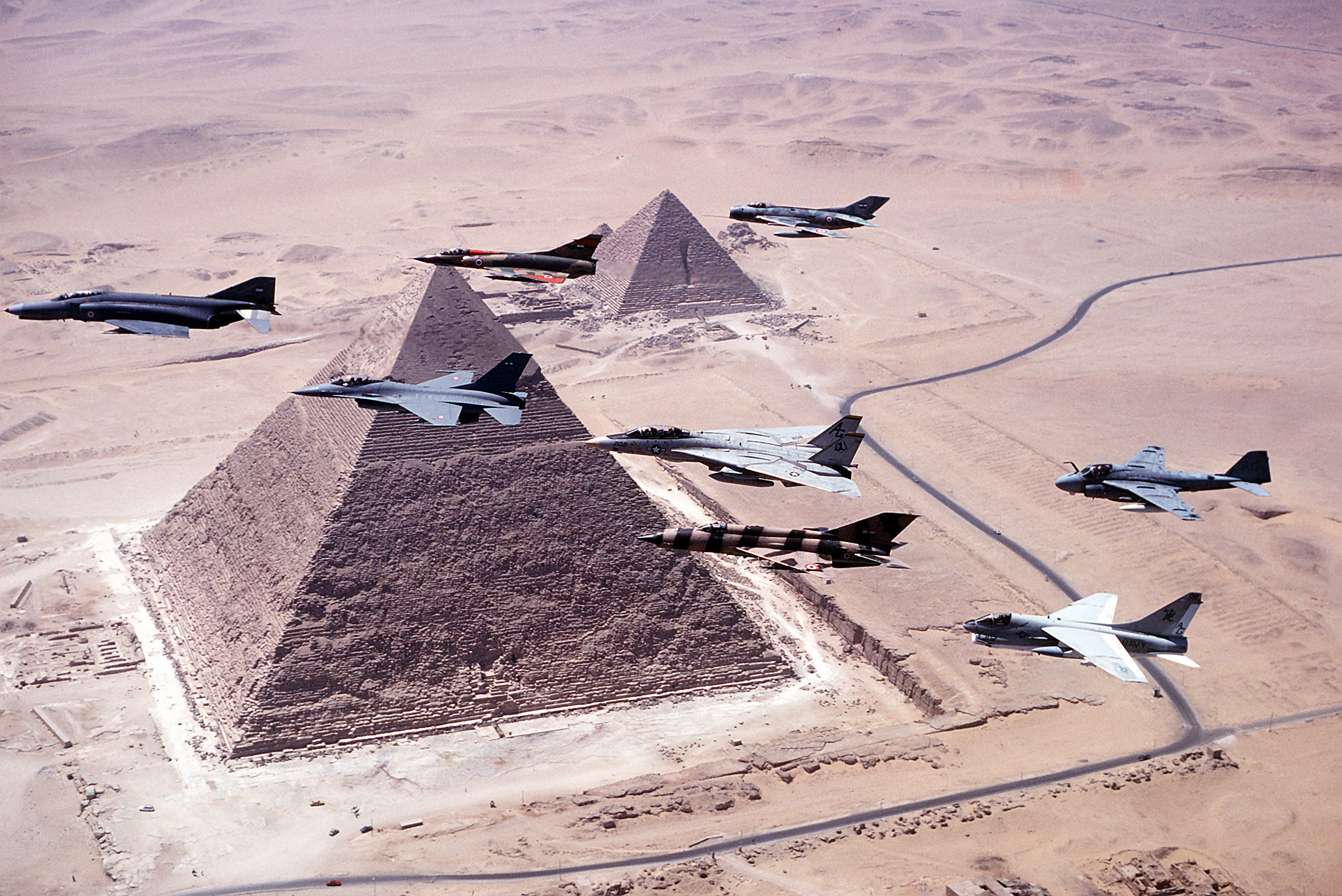 An air-to-air left side view of U.S. and Egyptian aircraft over the Pyramids during Exercise Bright Star '83.